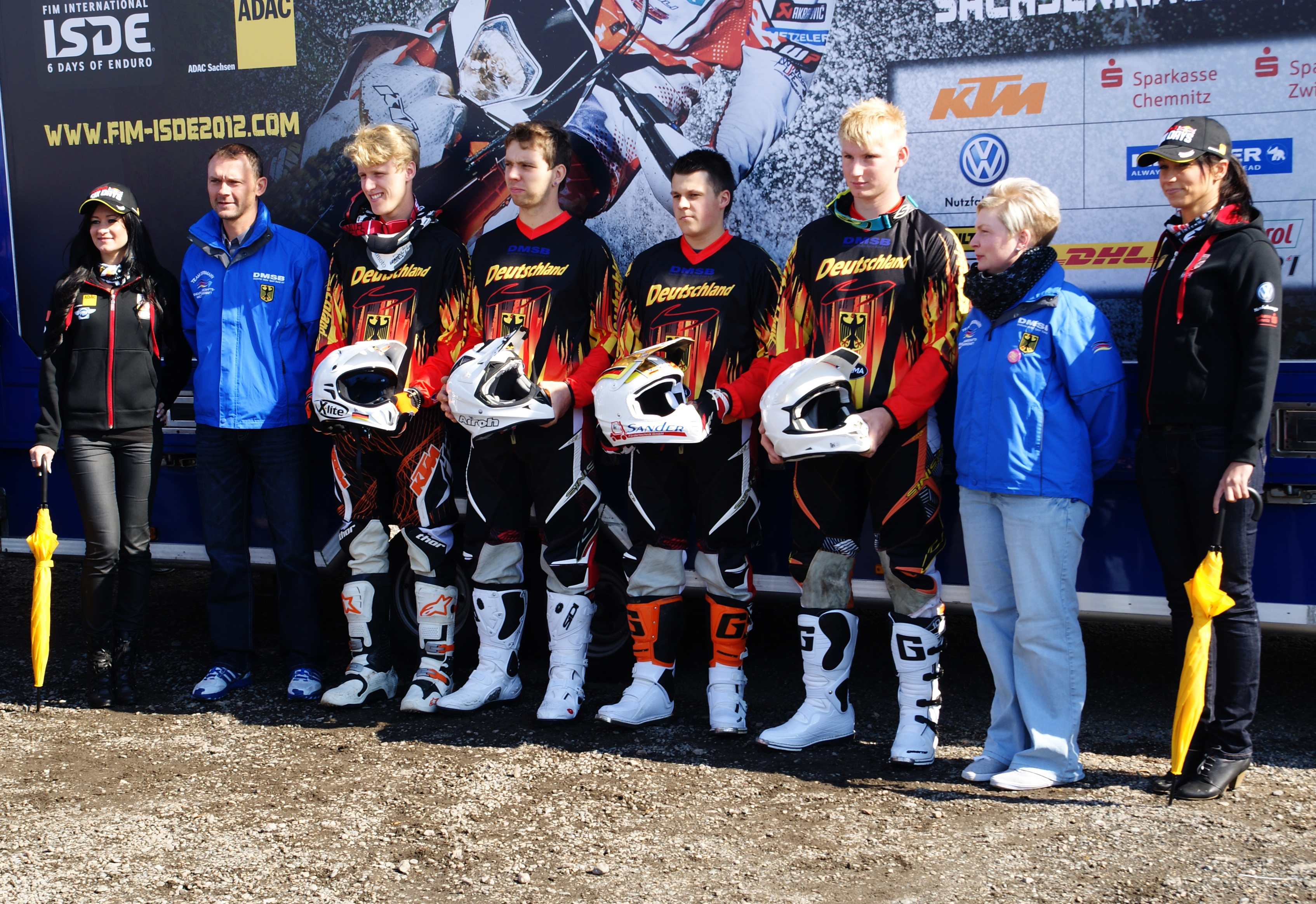 The making of this document was supported by the Community-Budget of Wikimedia Germany. 87. ISDE Red Bull Six Days 2012 Junior Team Germany